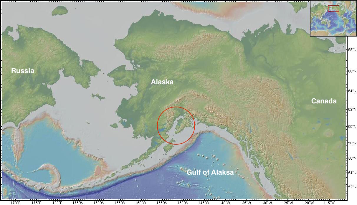 The Cook Inlet Basin Location